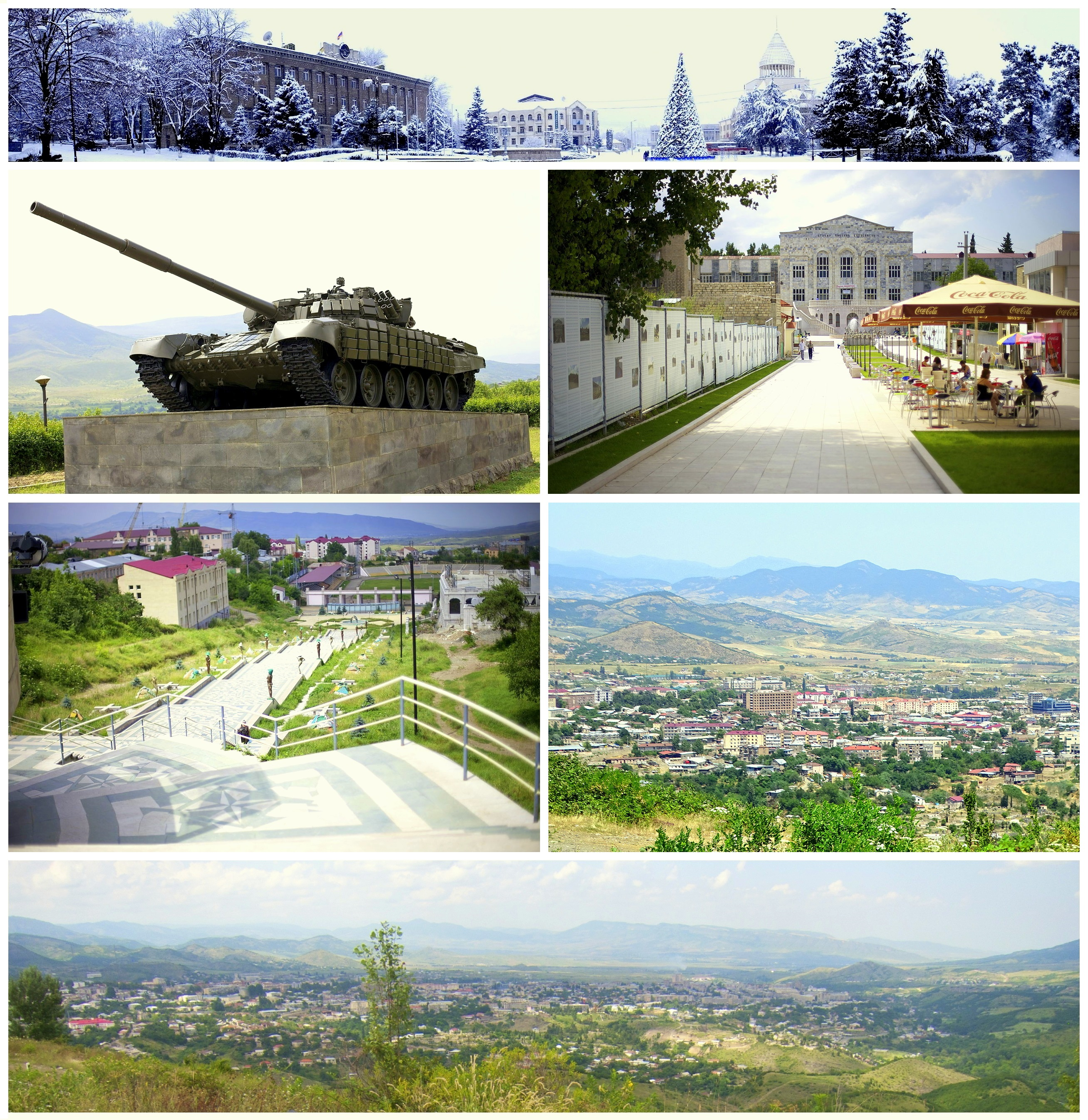 Stepanakert, Nagorno-Karabakh